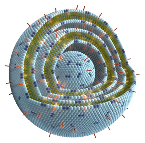 Schematic drawing of BPL-25 (Stimuvax). The BLP25 lipopeptide and monophosphoryl lipid A (MPL) are associated with the lipid bilayer of the liposomes that are formed upon rehydration of the dry powder.